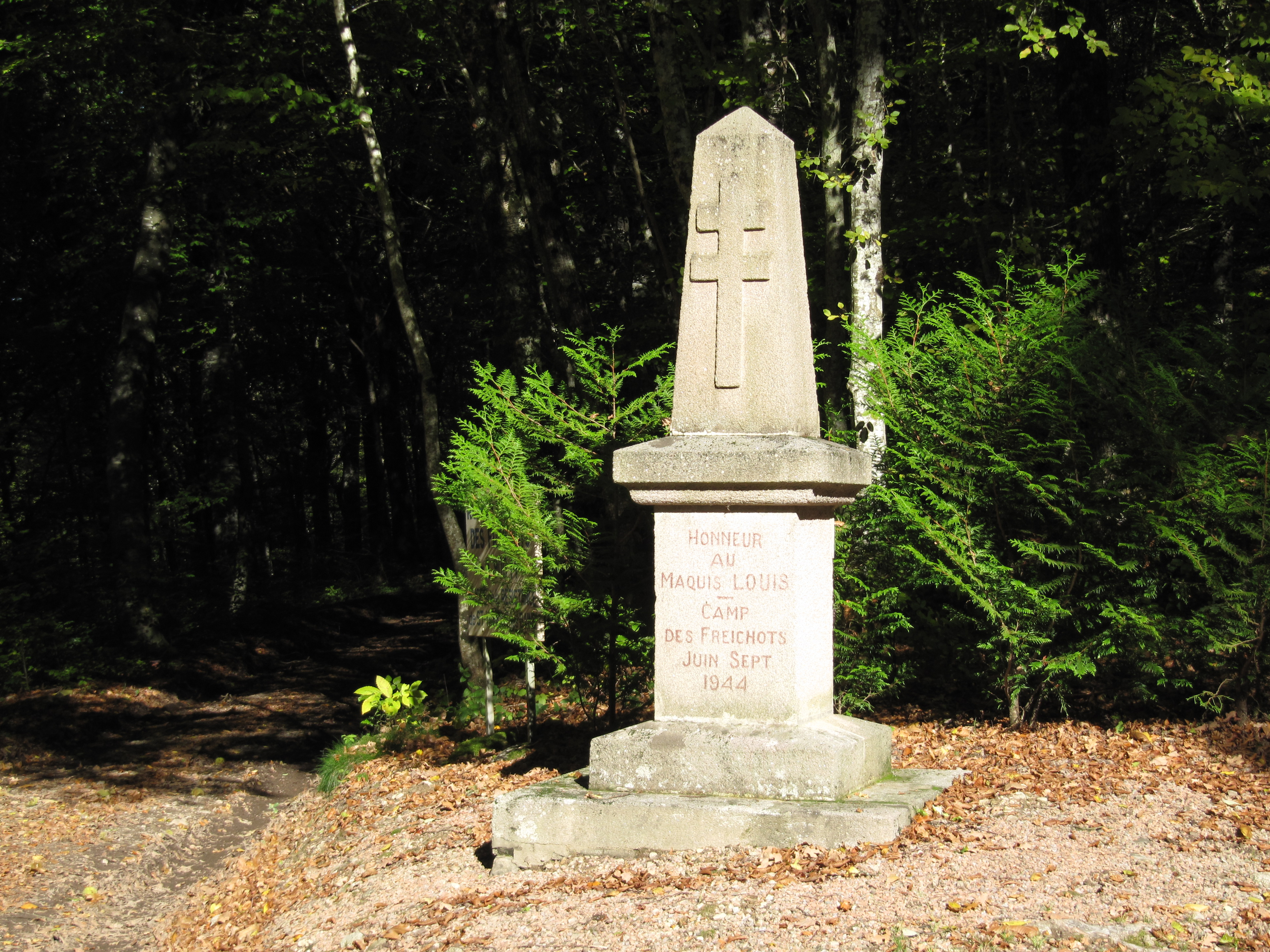 French Maquis Louis stele located on Fraichots site where maquis has been based in 1944 (France, Burgondy, Nievre, Larochemillay)